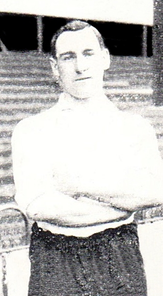 Jack Curtis from 1910. Taken from a Spurs cigarette card by Jones Bros.